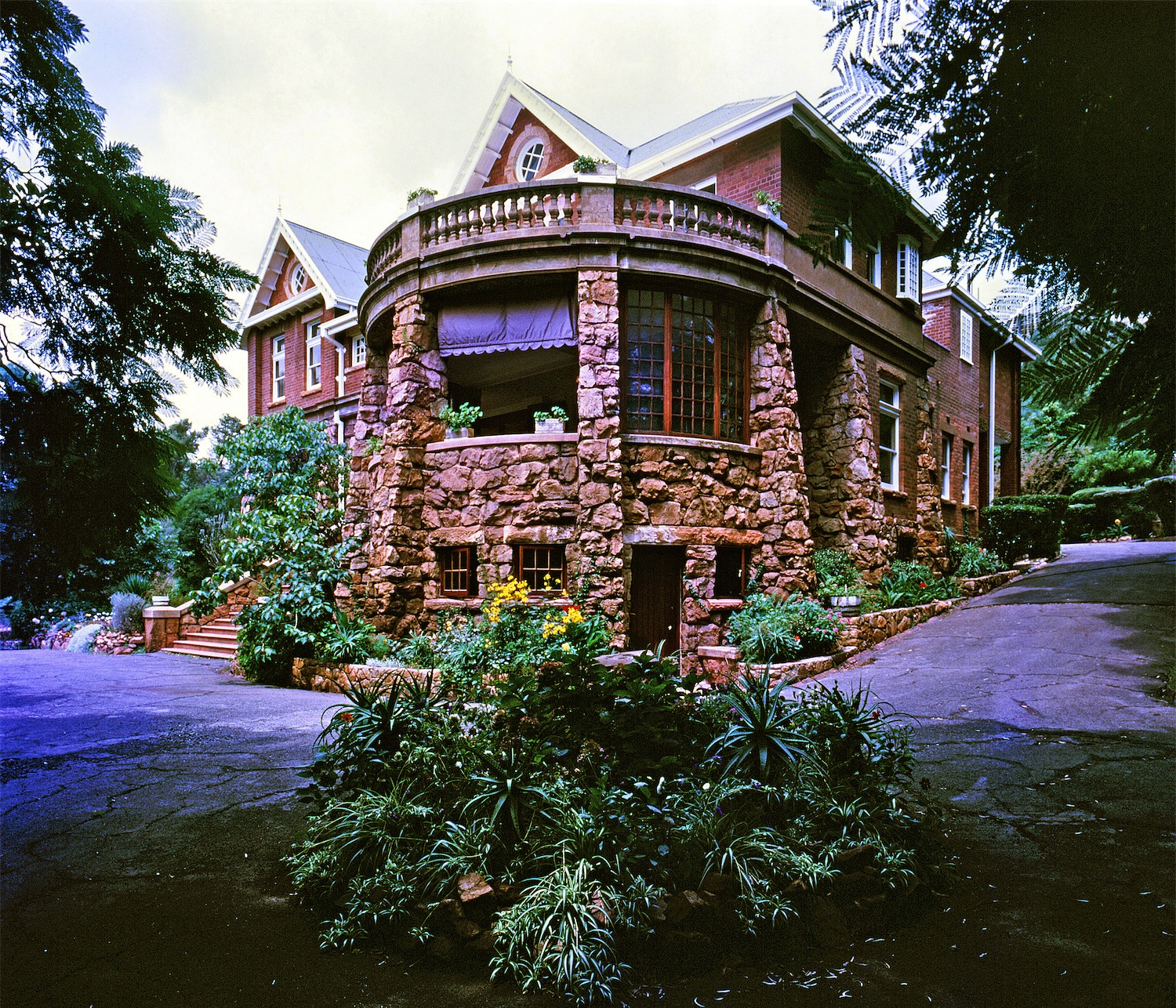 This media shows a South African Protected Site with SAHRA file reference 9/2/228/0164.